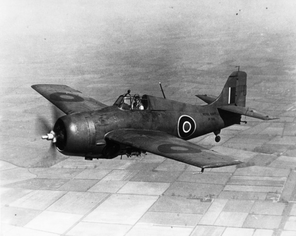 PictionID:40959290 - Catalog:Array - Title:Array - Filename:16_000301 Grumman [Eastern] FM-1 Martlet Mk.V JV330.tif - Ray Wagner was Archivist at the San Diego Air and Space Museum for several years and is an author of several books on aviation --- ---Please Tag these images so that the information can be permanently stored with the digital file.---Repository: San Diego Air and Space Museum